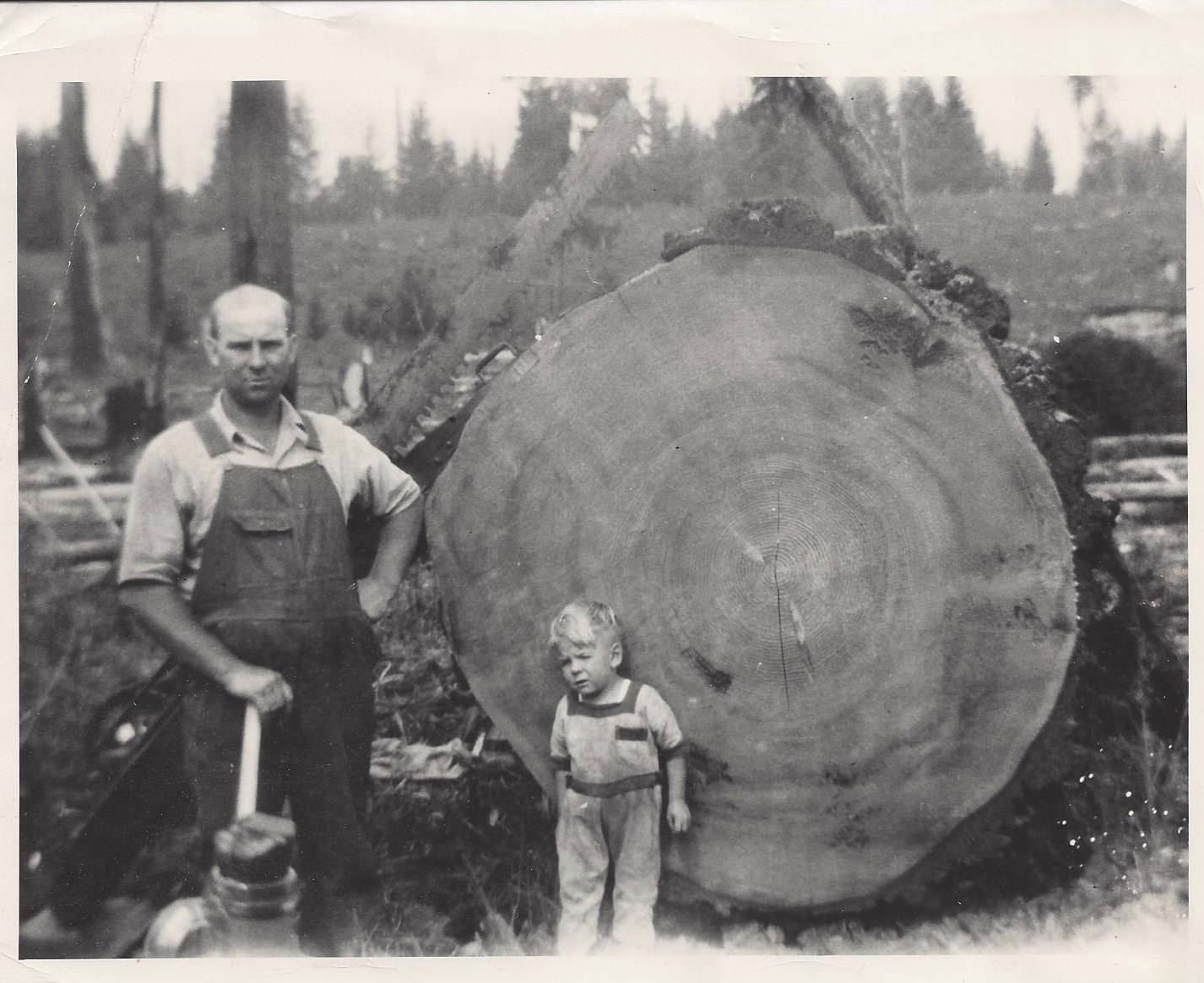 Photo of Hollie Pihl and his uncle cutting down a tree on their 1,000 acre tree farm in Manning, Oregon